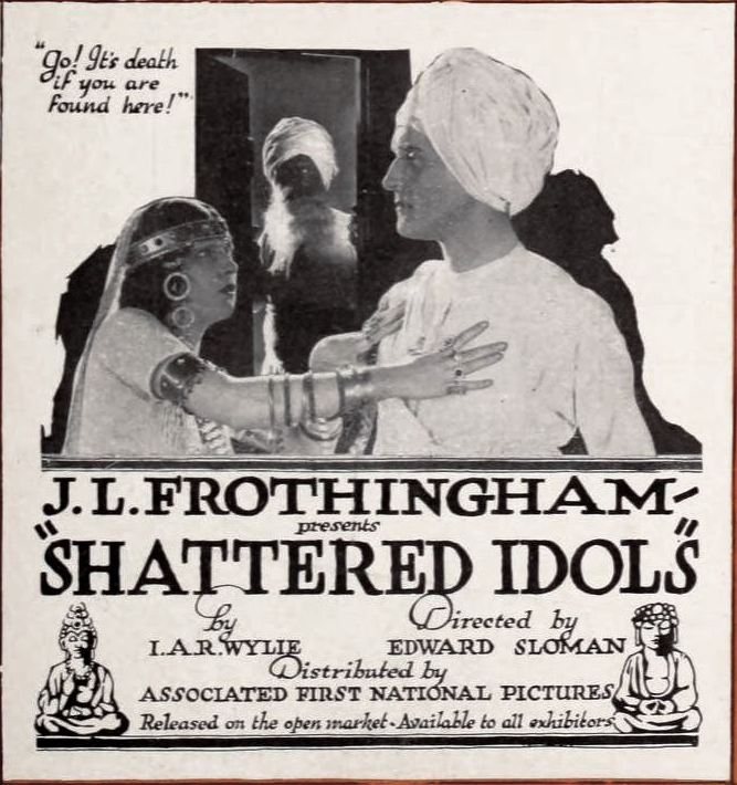 Advertisement for the American drama film Shattered Idols (1922) with Marguerite De La Motte and James W. Morrison, on the cover of the February 4, 1922 Exhibitors Herald.